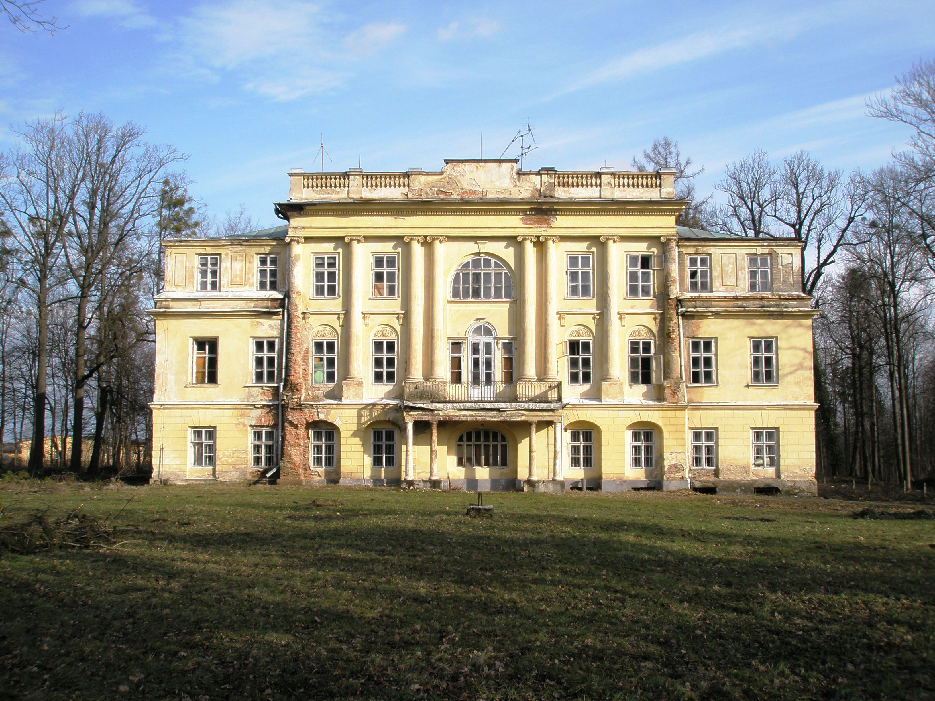 Palace in Hnojník in the Czech Republic